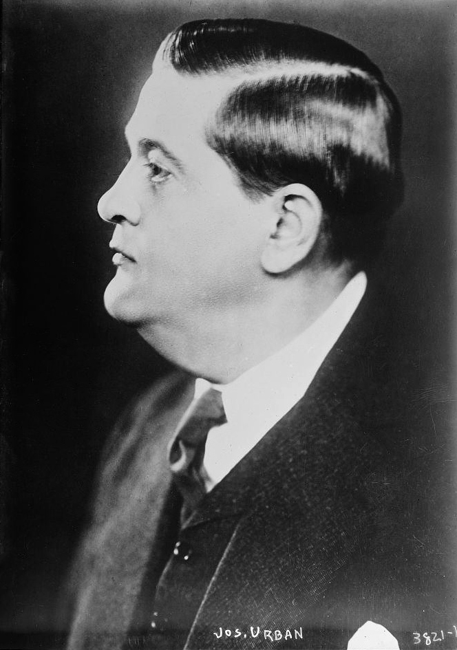 Joseph Urban circa 1915